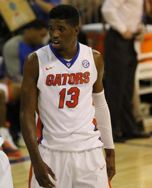 Richmond Spiders vs Florida Gators, Gators win 76-56 in front of 8,231 at the O'Connell Center.